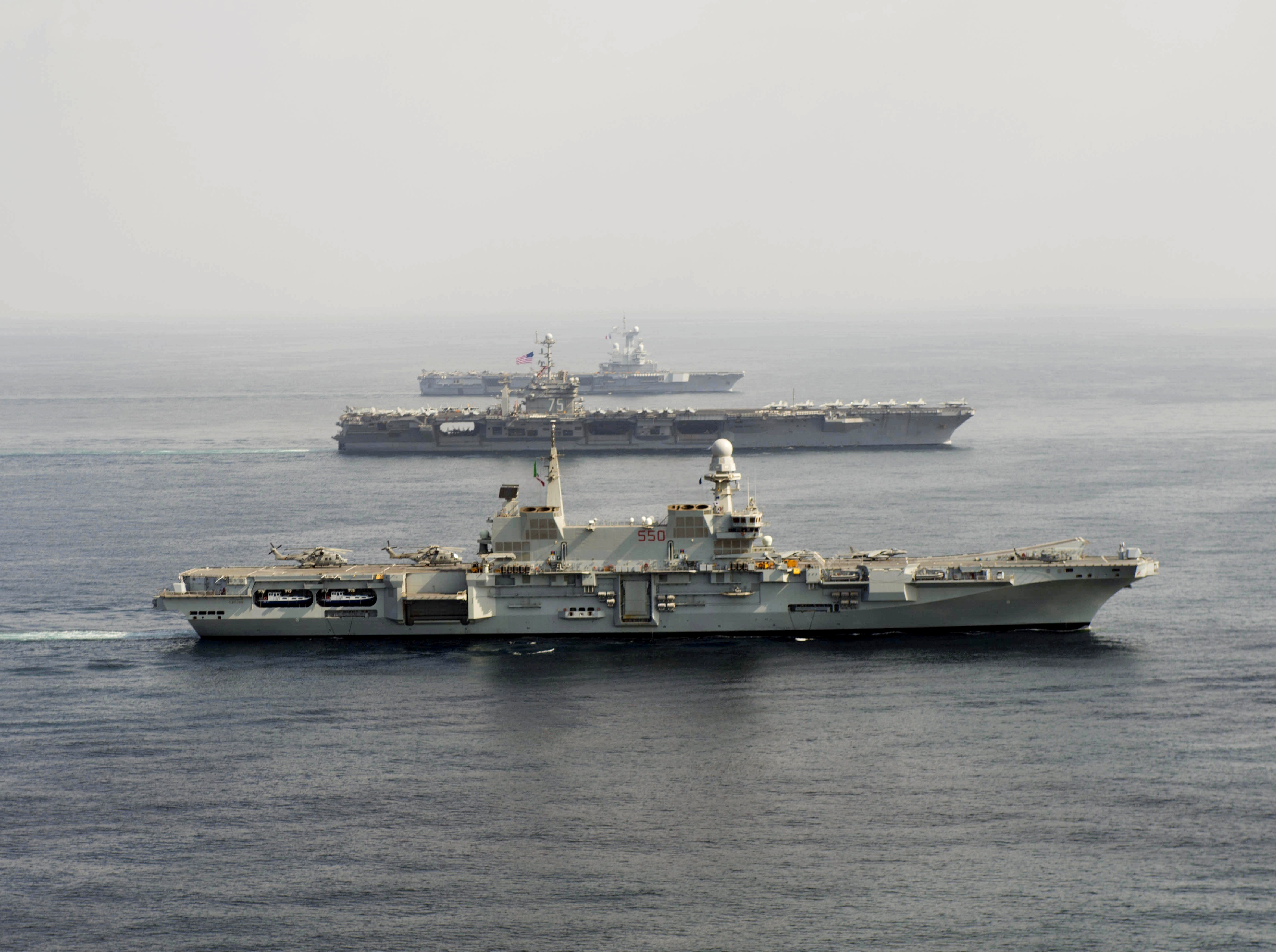 140103-N-QI228-508 GULF OF OMAN (Jan. 3, 2014) The Italian navy aircraft carrier ITS Cavour (CVH 550), front, the aircraft carrier USS Harry S. Truman (CVN 75) and the French navy aircraft carrier Charles de Gaulle (R 91), conduct operations in the Gulf of Oman. Harry S. Truman, flagship for the Harry S. Truman Carrier Strike Group, is conducting operations with Task Force 473 to enhance levels of cooperation and interoperability, enhance mutual maritime capabilities and promote long-term regional stability in the U.S. 5th Fleet area of responsibility. (U.S. Navy photo by Mass Communication Specialist 3rd Class Ethan M. Schumacher/Released)